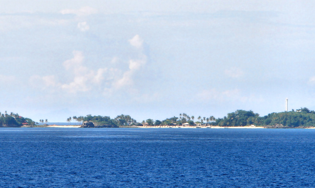 Malapascua Island, Cebu province, the Philippines.